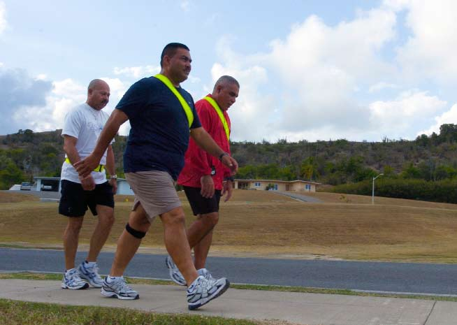 The “weigh” he was Camp America commandant loses more than 50 pounds with help from friends Army Sgt. 1st Class Danny Carreras, Sgt. 1st Class Guillermo Santiago and Master Sgt. Orlando Negron of Headquarters and Headquarters Company of 525th Military Police Battalion, walk as part of a daily exercise routine to promote health and lose weight. – JTF Guantanamo photo by Army Spc. David McLean